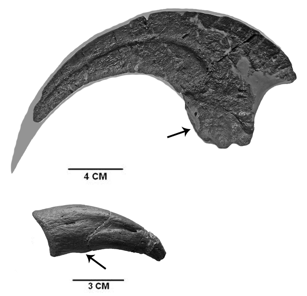 The foot claws of the Dakotaraptor holotype, showing the flexor tubercles (black arrows) for attachment of the slashing muscles. The flexor tubercle of the killing claw is very large and robust for a strong slashing ability, but the one on digit III claw is very small, showing less claw usage. The outer keratinous sheath would have lengthened the killing claw, providing it with a sharp point (grey shades area)